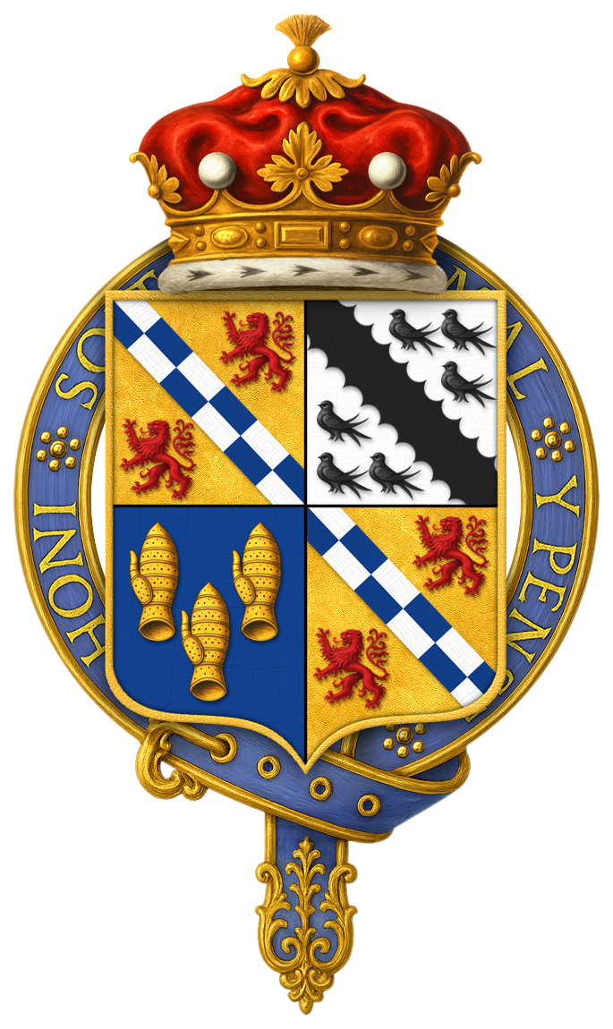 Garter encircled shield of arms of Charles Vane-Tempest-Stewart, 6th Marquess of Londonderry, KG, as displayed on his Order of the Garter stall plate in St. George's Chapel.